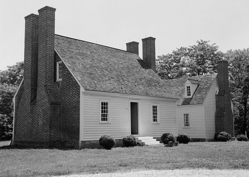 Sandgates on Cat Creek, East of Oakville on State Route 472, Oakville vicinity, St. Mary's County, MD: Historic American Buildings Survey PERSPECTIVE VIEW OF NORTHWEST CORNER, SHOWING FRONT ENTRANCE, HABS MD,19-OKVI.V,1-1